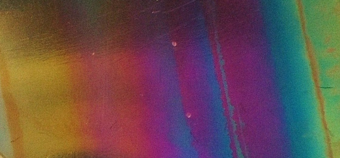 Made by Mauro Cateb, Brazilian jeweler and silversmith.